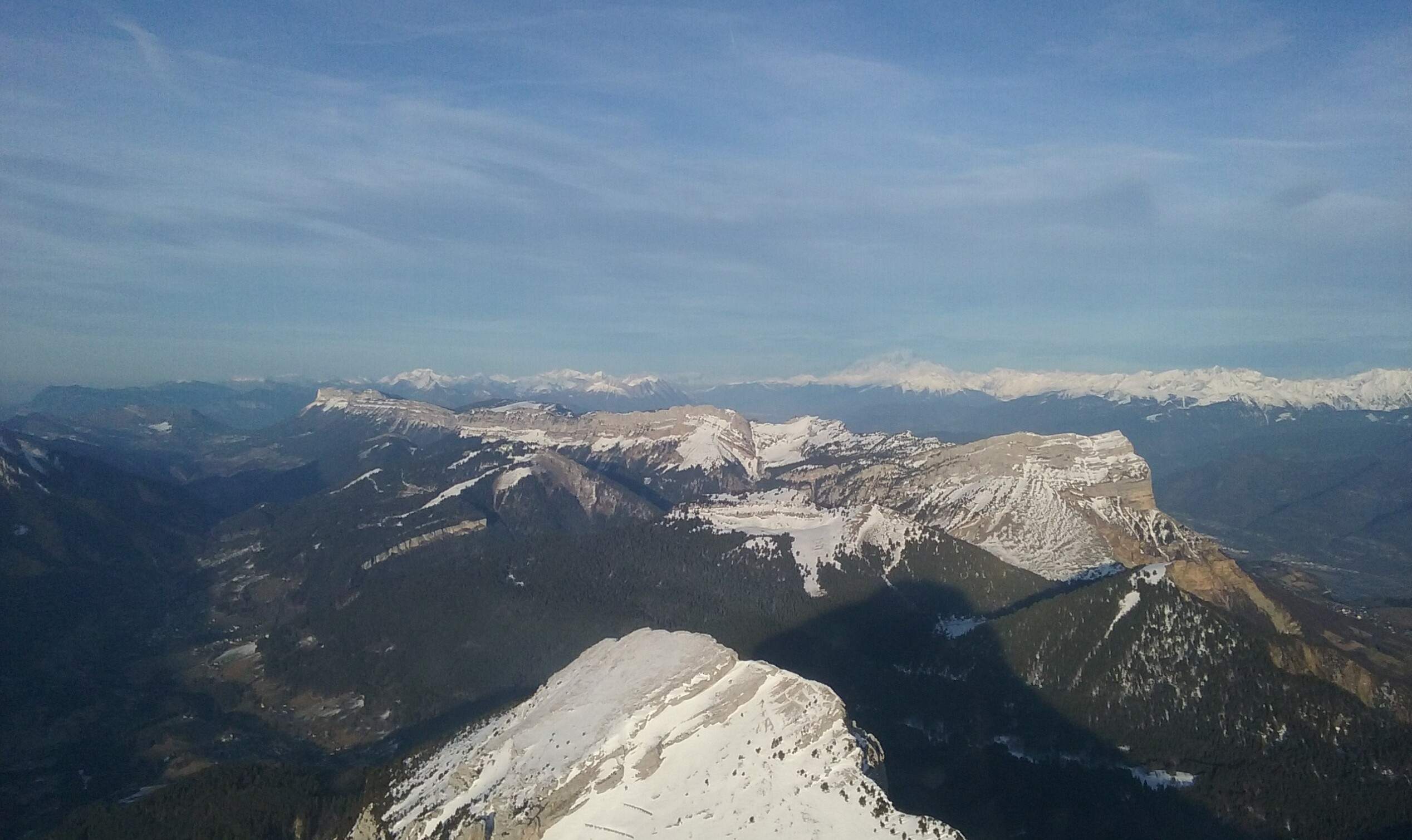 Aerial view of the Dent de Crolles.